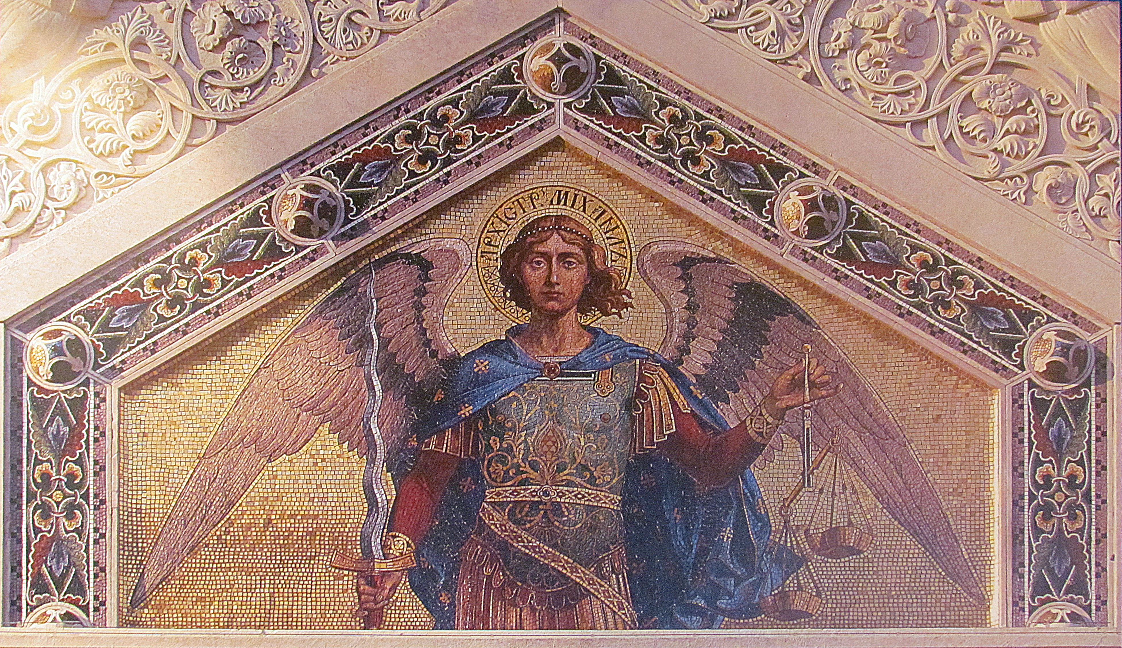 Mosaic of Saint Michael in Saint Spyridon Church, Trieste